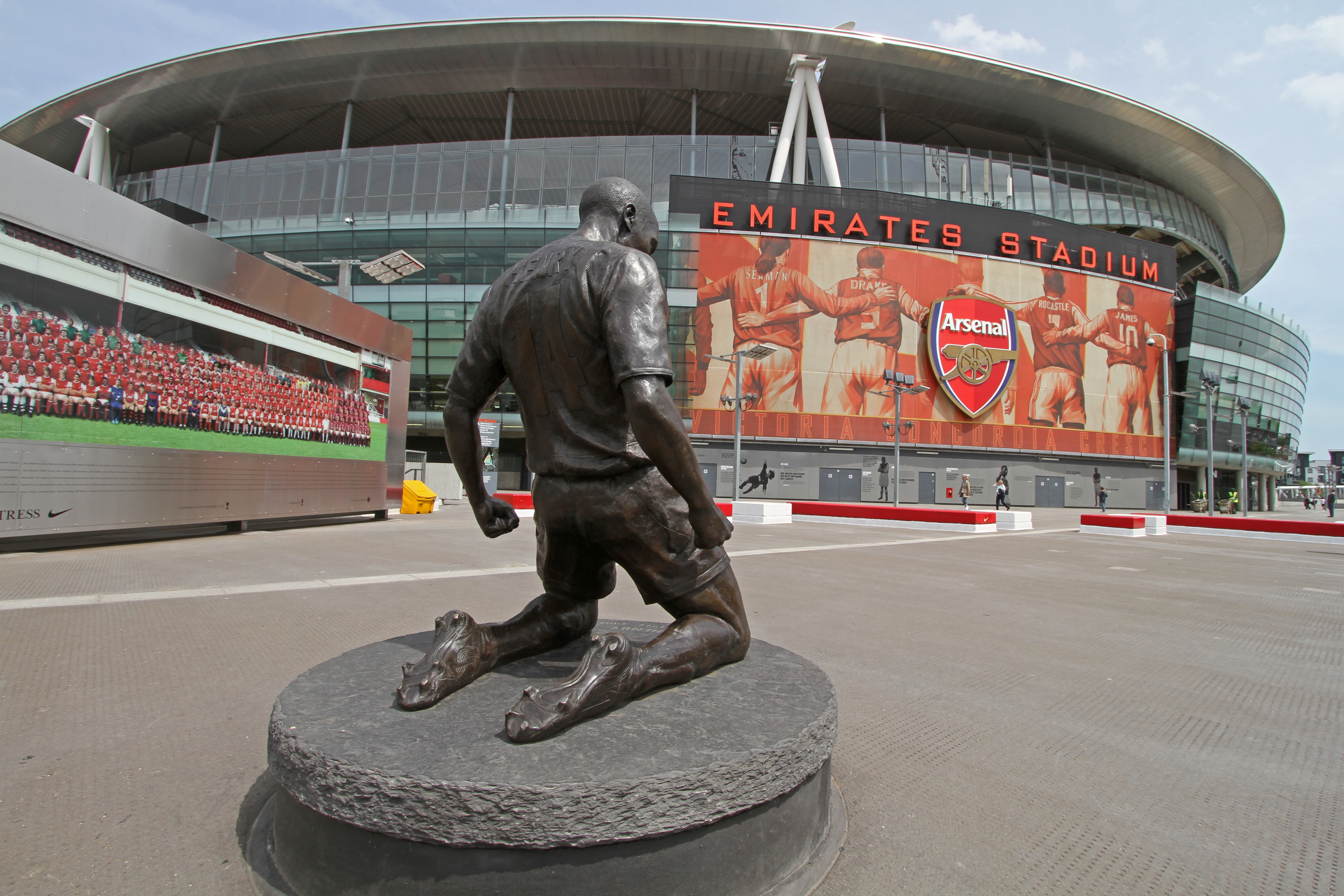 Thierry Henry statue at the Emirates Stadium